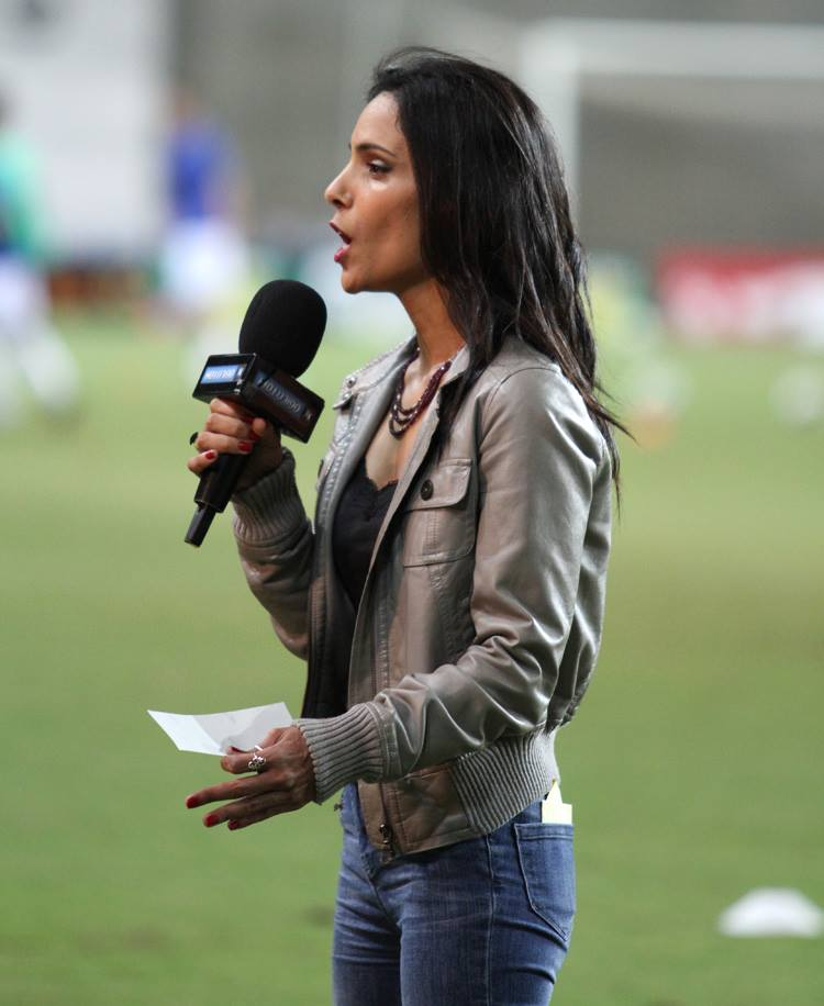 A sideline reporter in Israel football match